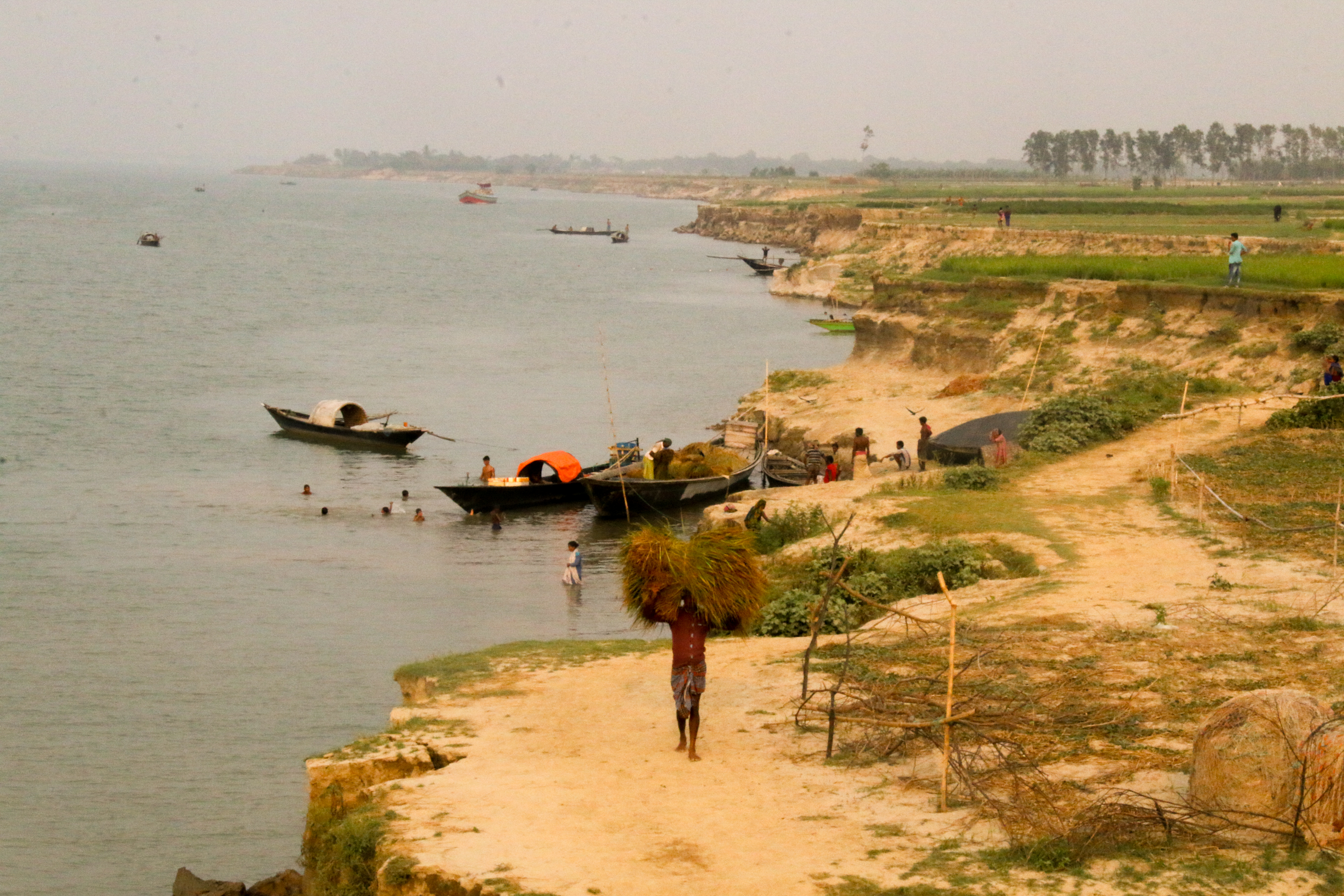 goalundo